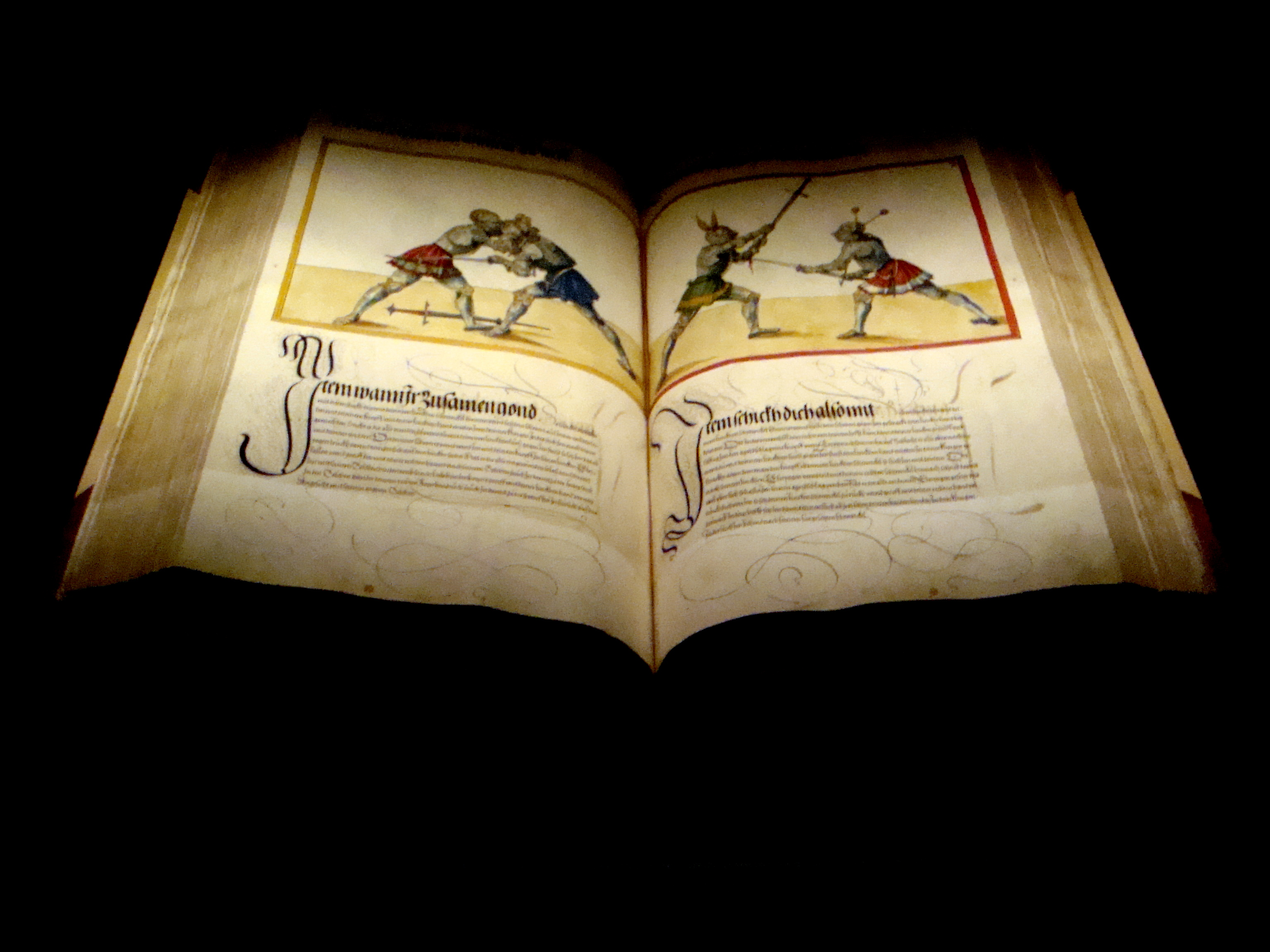 The indoor area of the SLUB.